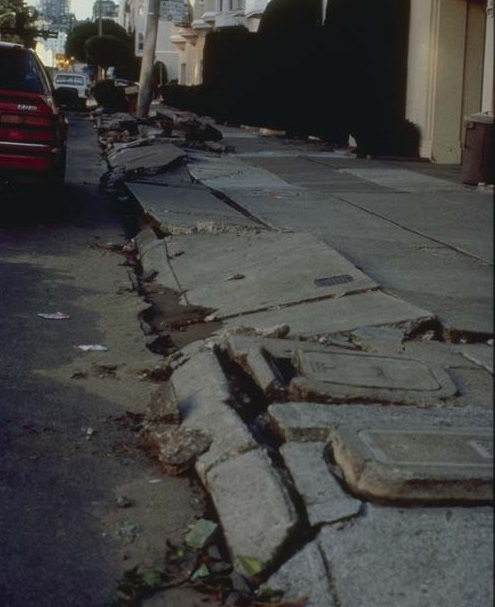 View south on Webster Street in the Marina District. Sidewalk damage is the result of liquefaction of the land fill upon which the area was built. Note the upheaved section in background near pole. The manmade fill beneath the Marina was permanently deformed by liquefaction. Structures resting on the fill had to accommodate the deformation.